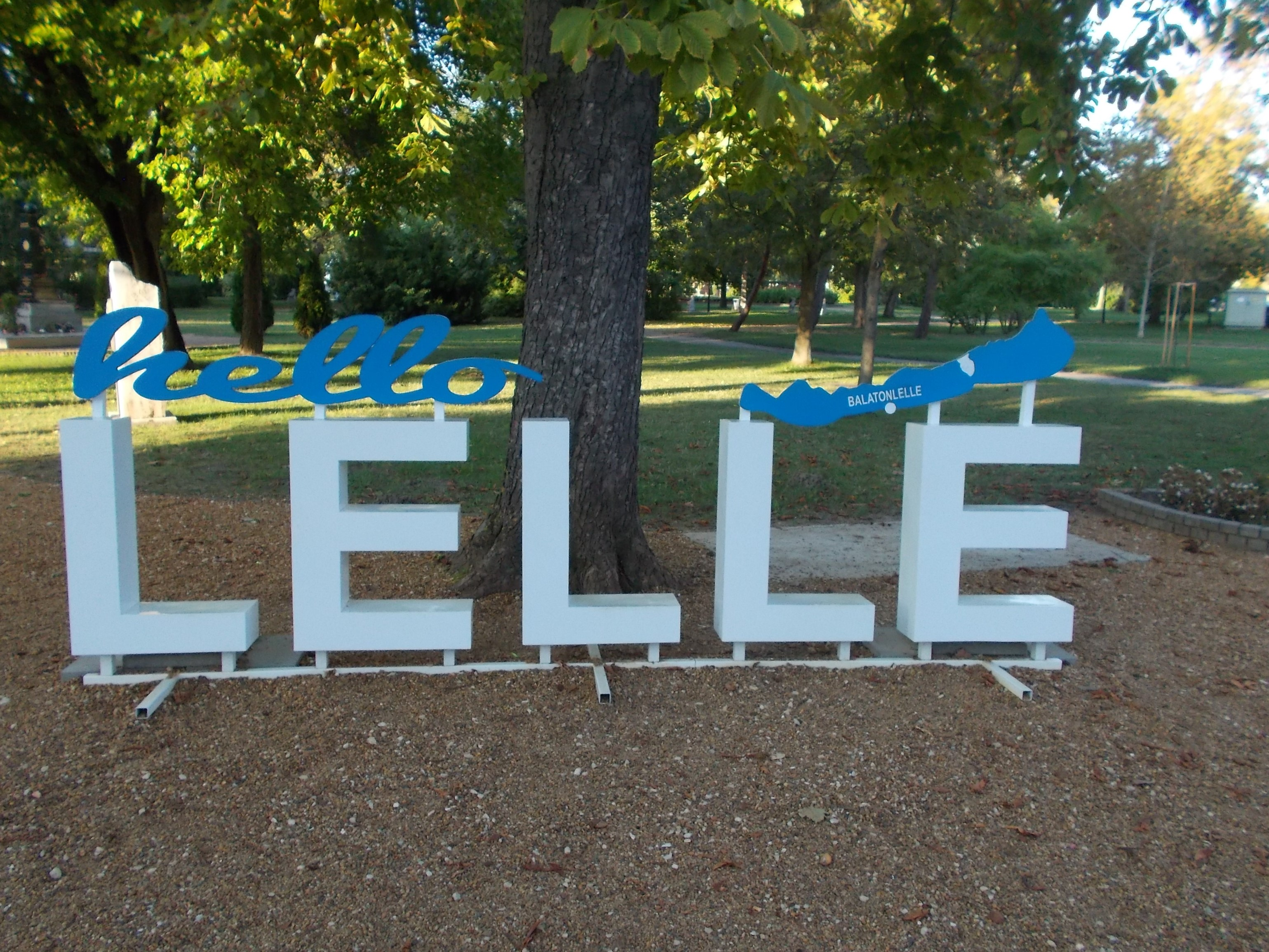 'hello Lelle' sign in a Park by Napospart street, Balatonlelle, Somogy County, Hungary.